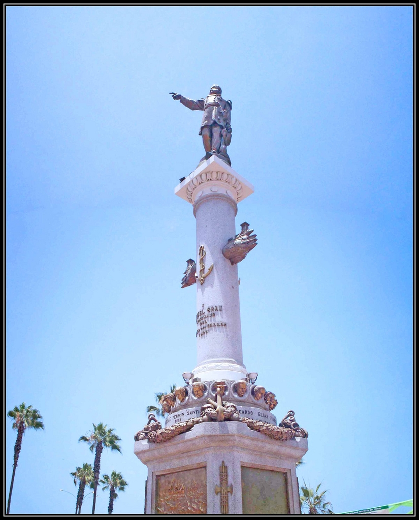 Monument in honor to Miguel Grau Seminario, "The Gentleman of the seas"